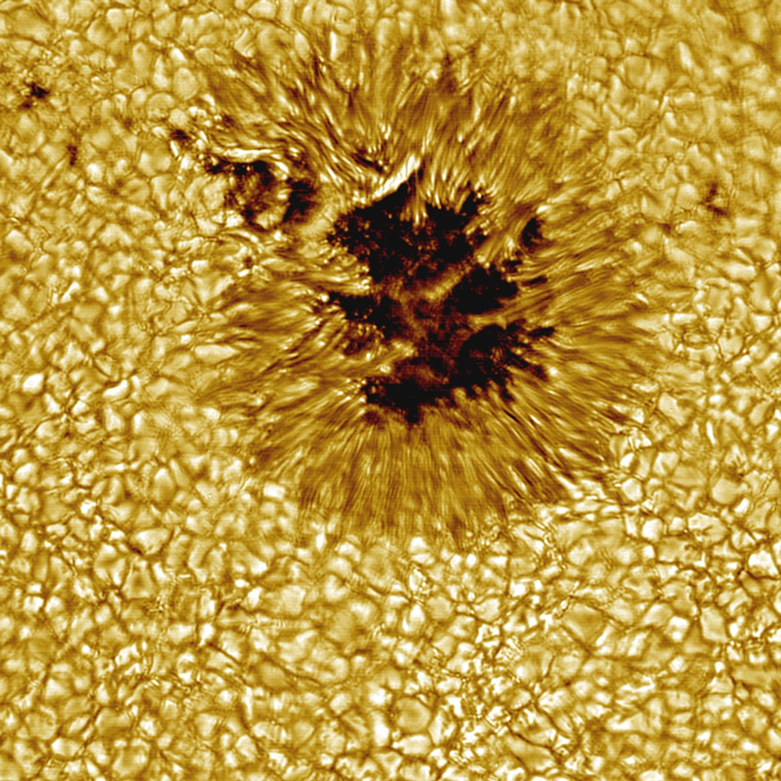 Sun spot and granulation